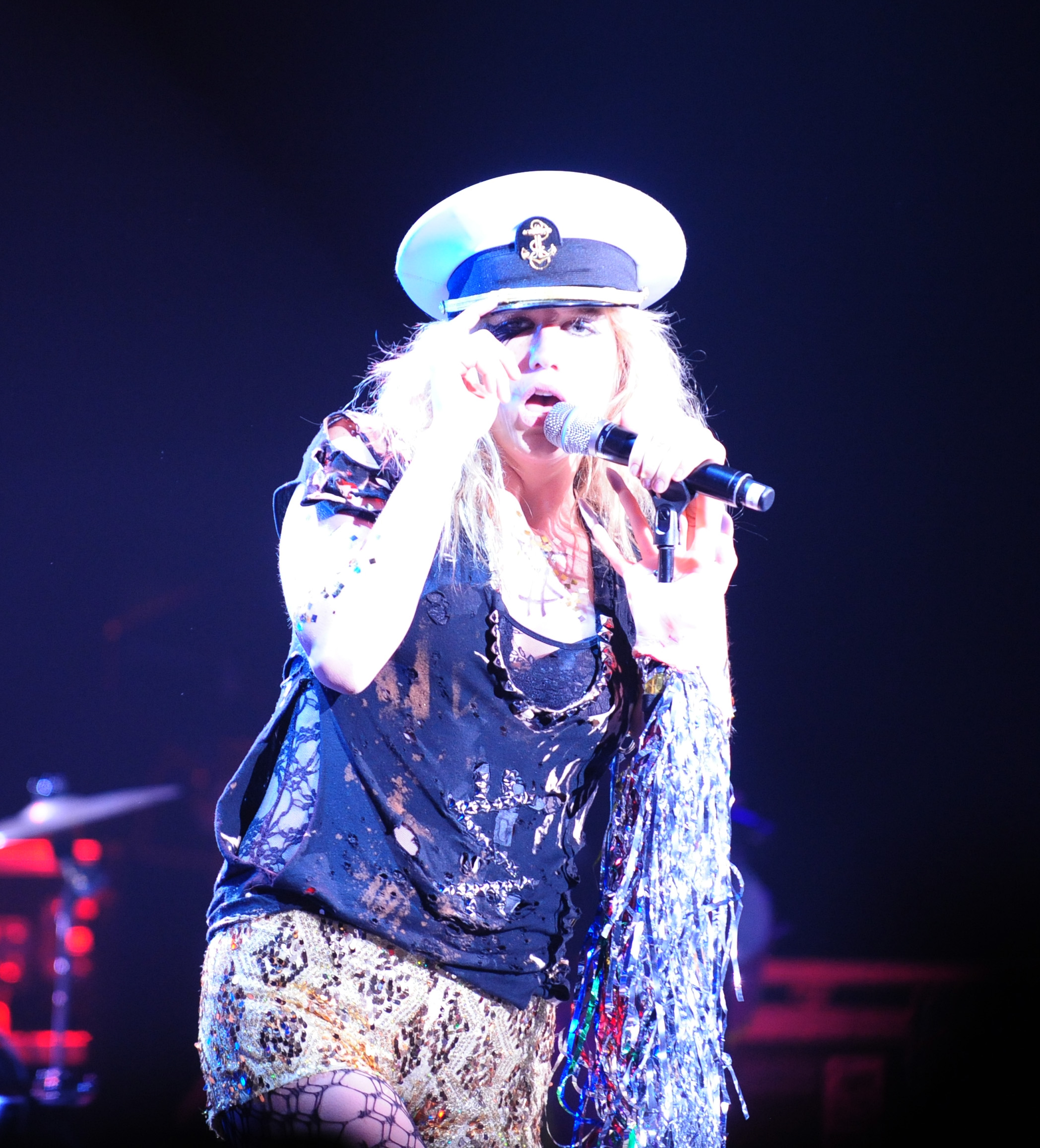 Kesha in concert at the United States Naval Academy on October 29, 2010.